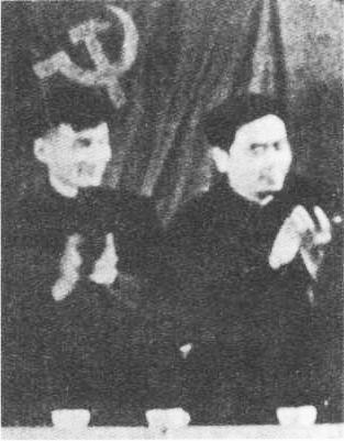 Zhu Xuefan (Chu Hsueh-fan) and Chen Yun